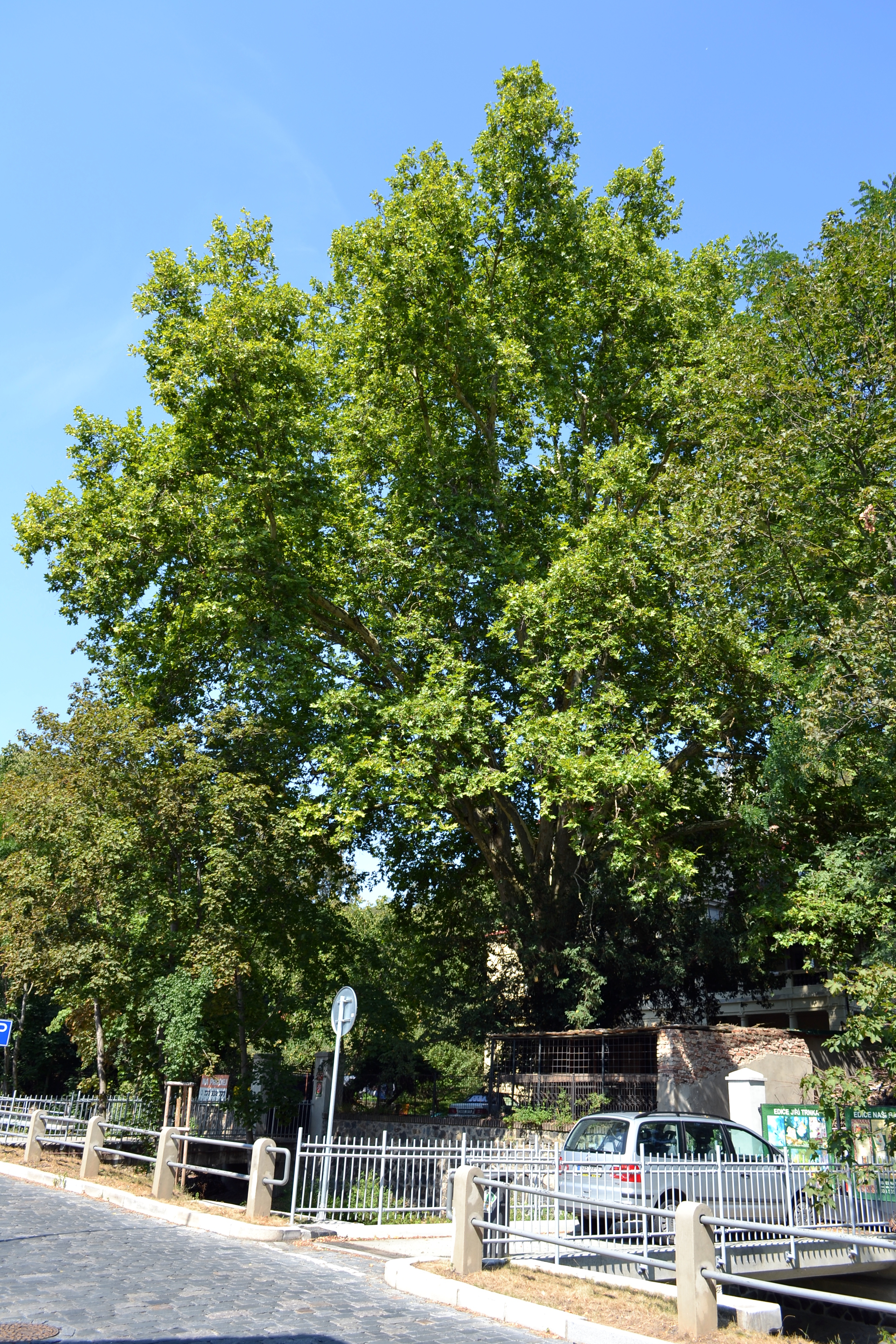 A famous tree London plane (Platanus hispanica), V Podbabě street near house No. 2523, Dejvice, Prague 6, Czech Republic.